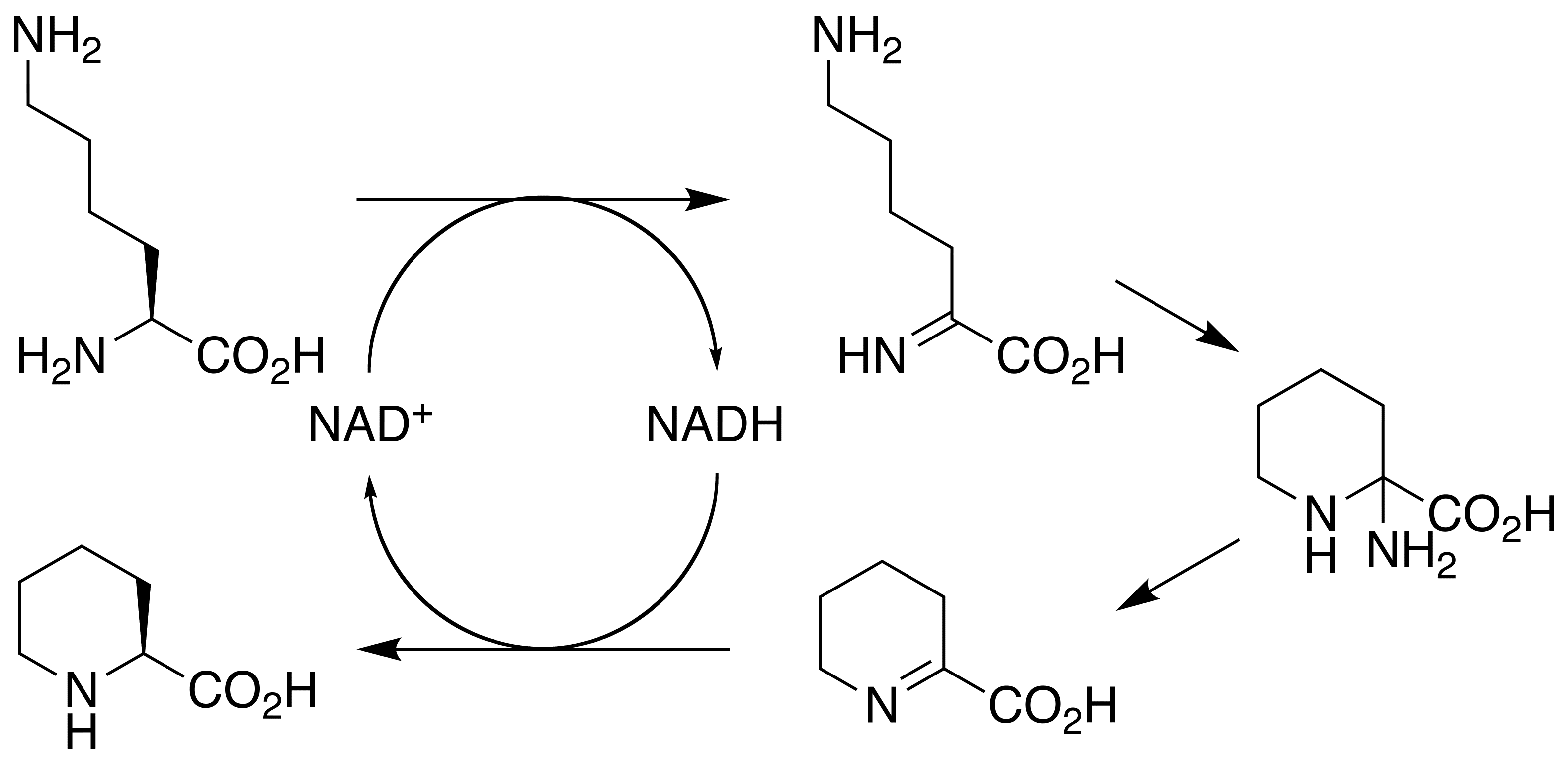 Skeletal structures of the biosynthesis of L-pipecolic acid from L-lysine using a NAD+/NADH cofactor. The whole process is mediated by the RapL gene in the biosynthesis of rapamycin.See Gatto, G. J., Jr.; Boyne, M. T., II; Kelleher,N. L.; Walsh, C. T. (2006). "Biosynthesis of Pipecolic Acid by RapL, a Lysine Cyclodeaminase Encoded in the Rapamycin Gene Cluster". J. Am. Chem. Soc. 128 (11): 3838–3847. PMID 16536560.